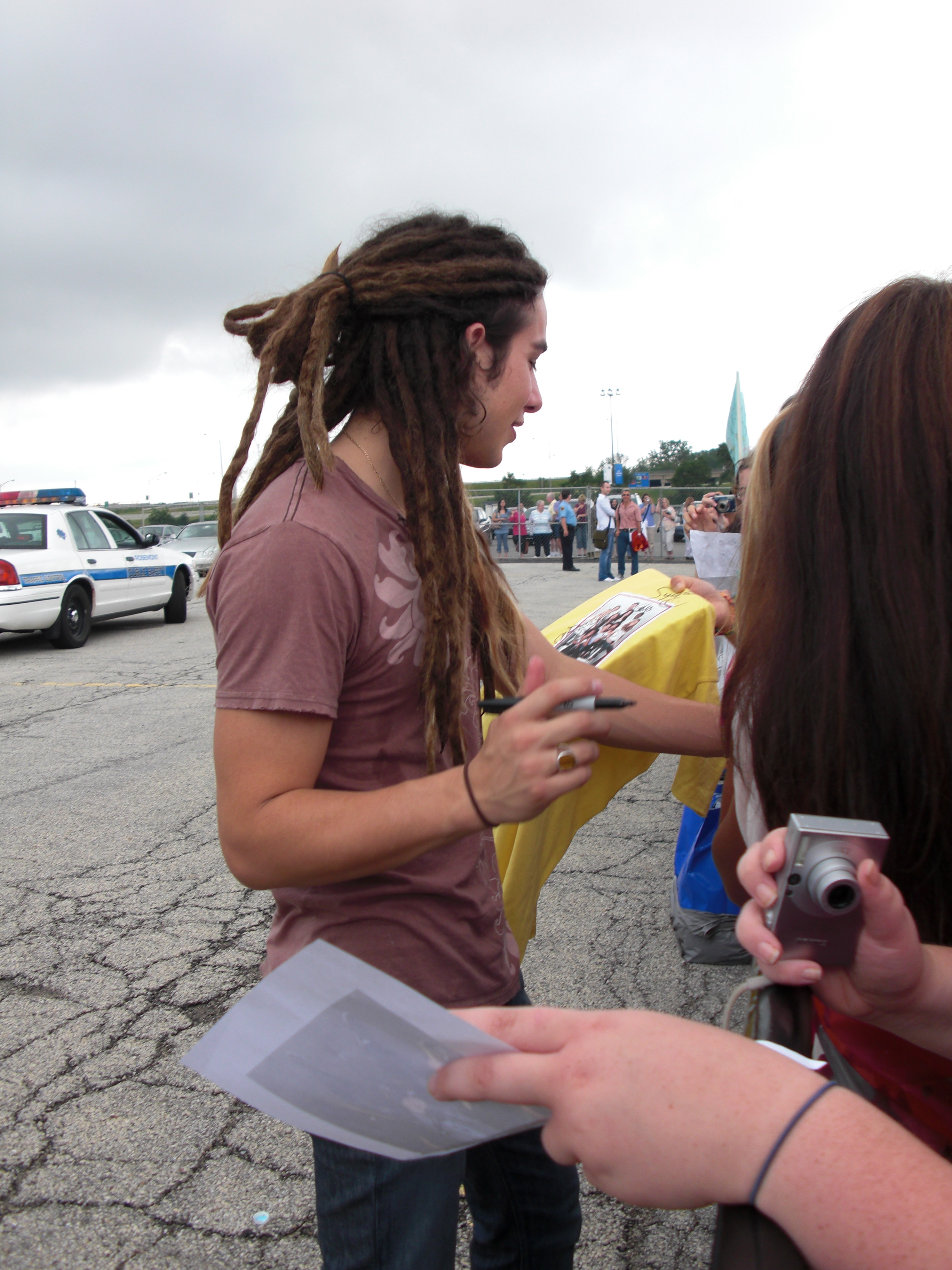 Jason Castro signing autographs during the American Idols LIVE! Tour 2008 in Rosemont, Illinois, USA.